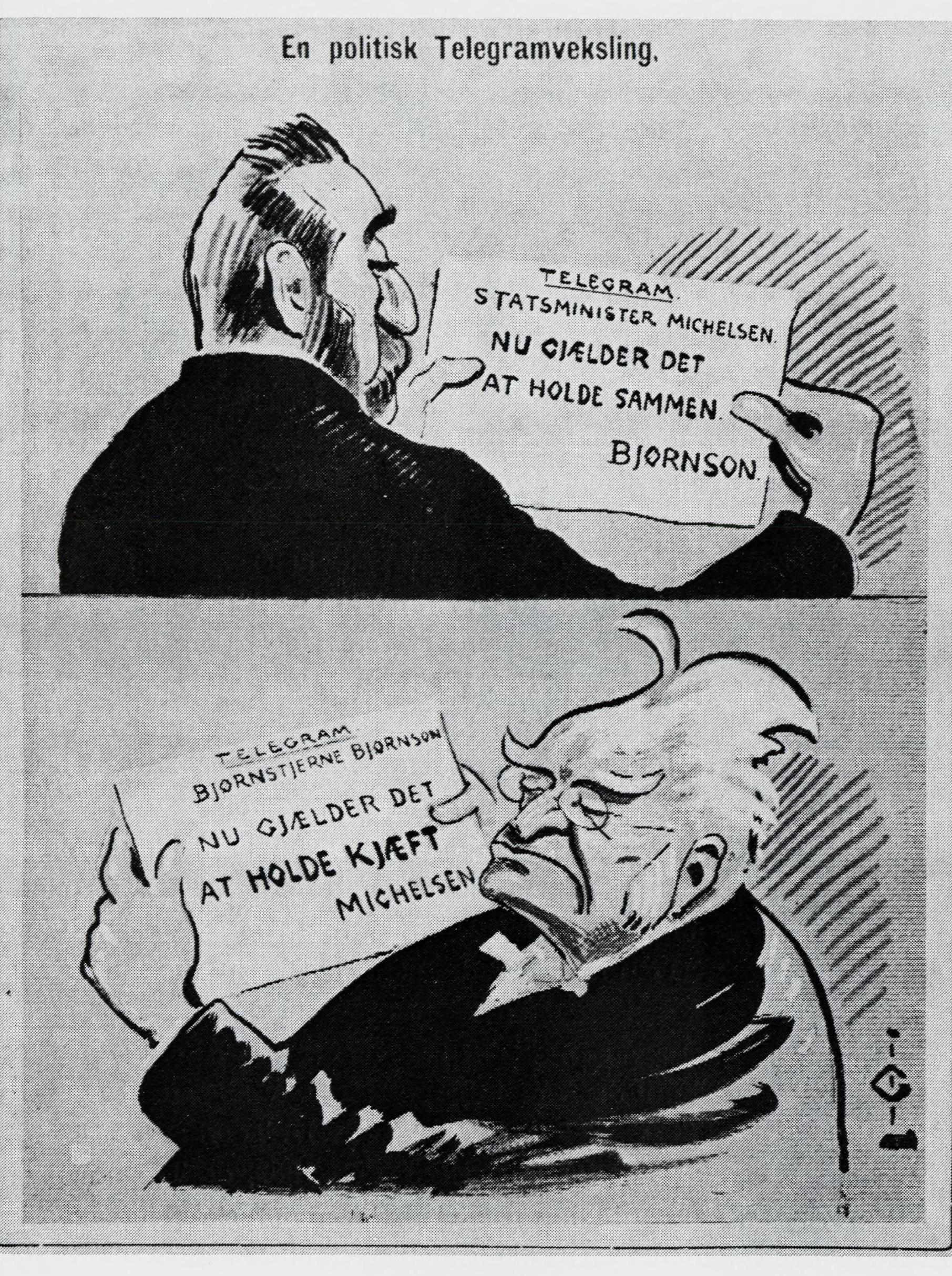 A famous caricature in which Bjørnstjerne Bjørnson sends a telegram to Christian Michelsen and gets a witty reply